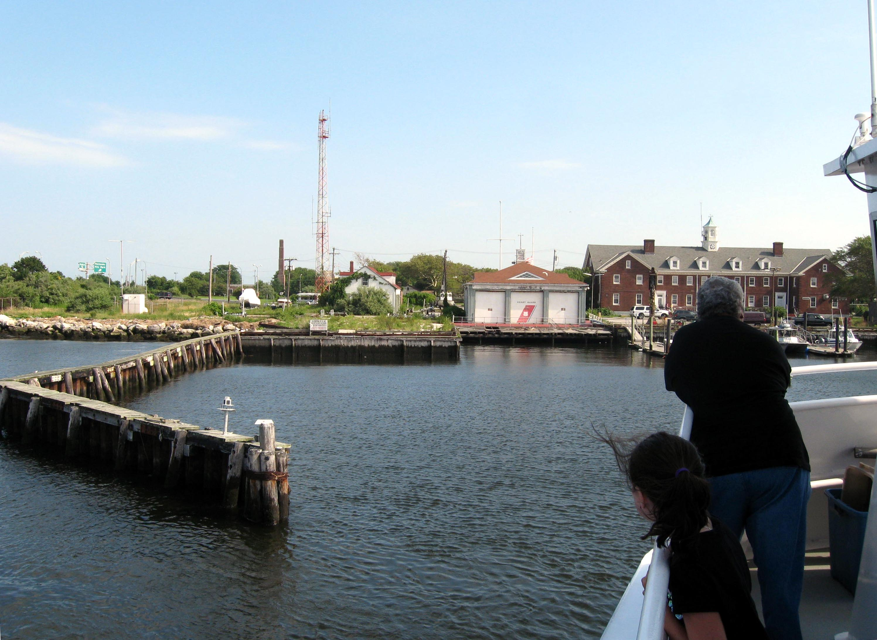 Riis Landing in Roxbury,Queens as seen from approaching boat of Rockaway ferry on a sunny afternoon